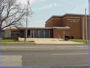 Patapsco High School and Center for the Arts, facing south onto Wise Ave.